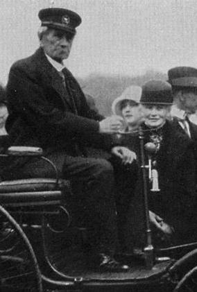 Benz Patented Motorwagon with Karl Benz and Bertha Benz - cropped photograph from commons